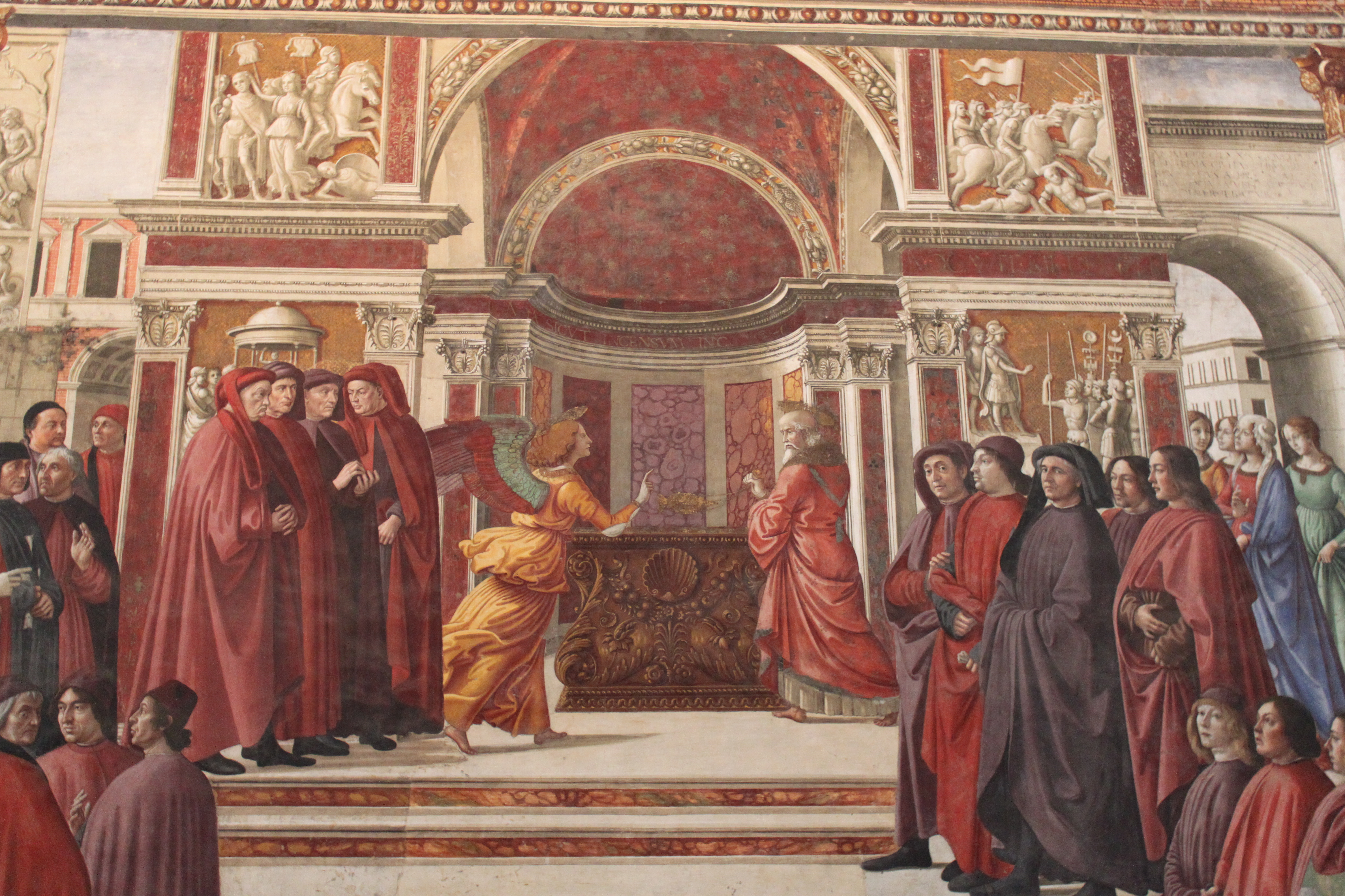 fresco, Tornabuoni chapel, Santa Maria Novella, Florence